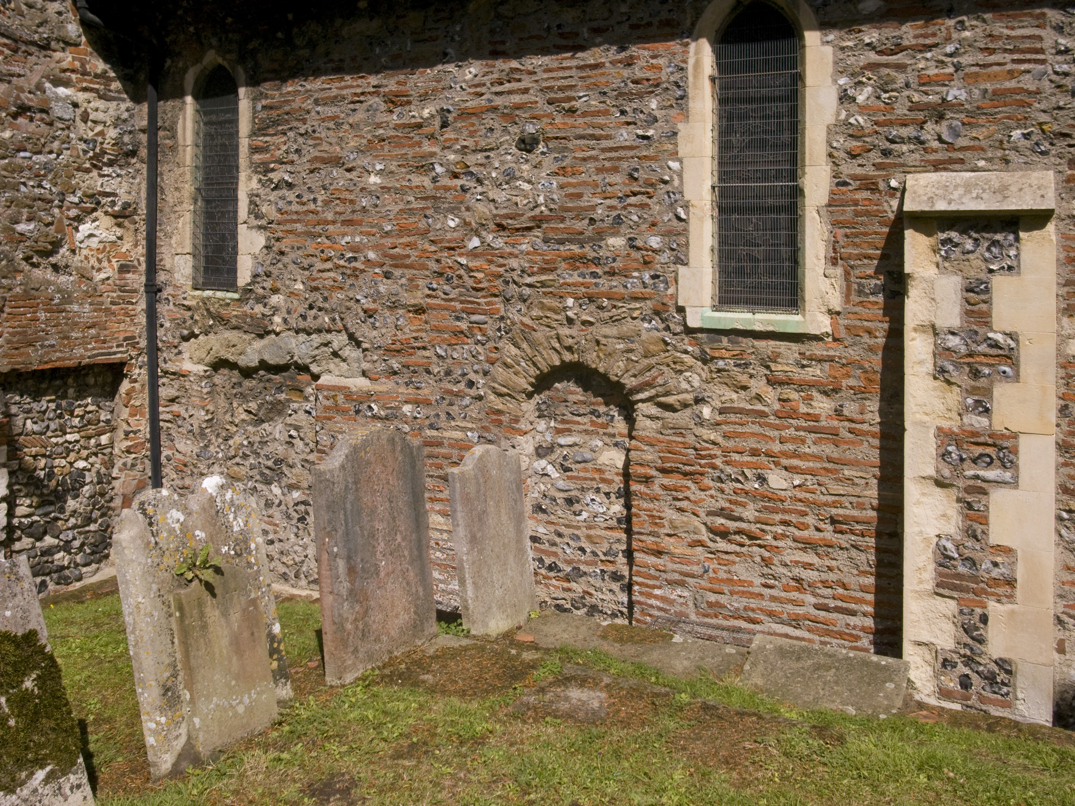 Part of the south wall of the chancel of St Martin's Church, Canterbury, England. Built with Roman bricks.